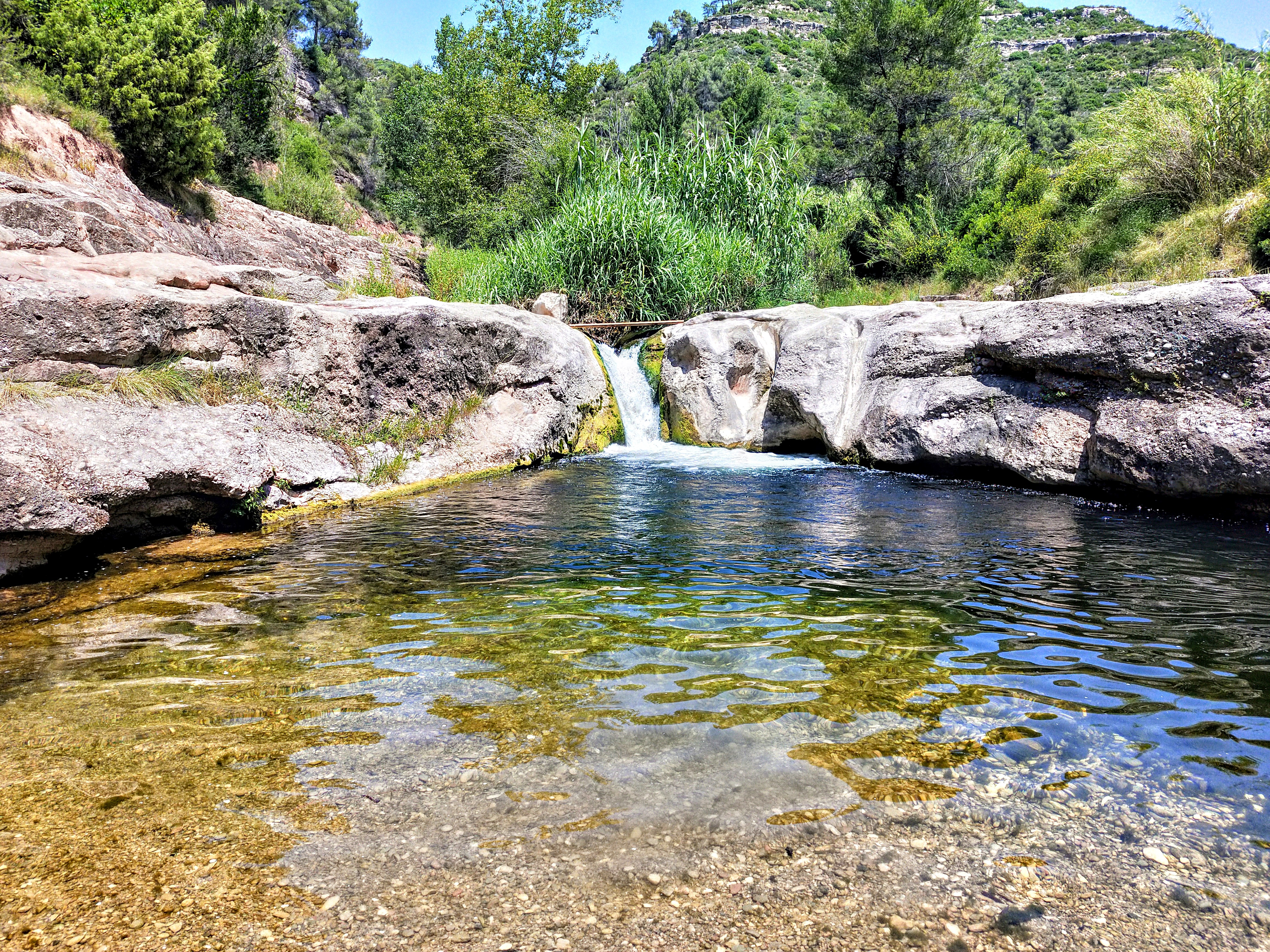 Tercera poza de las tres balsas de castellbell